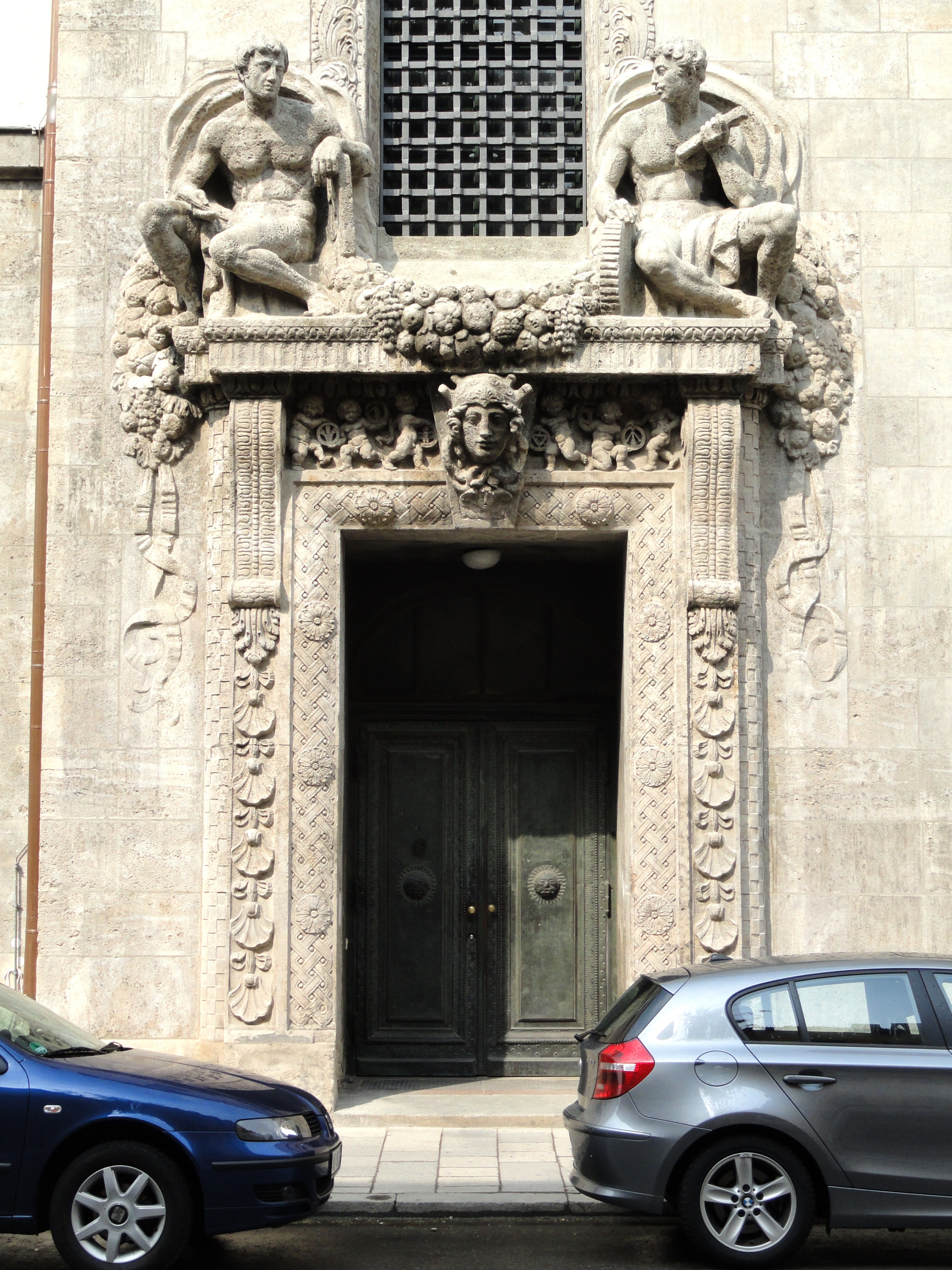 Technische Universität München, Munich, Germany.